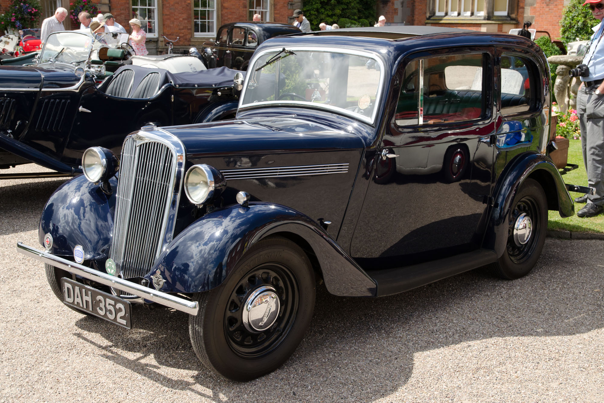 1939 Singer Bantam (DVLA) first registered 1 March 1939, 1056cc Capesthorne Hall Classic Car Show 27/07/2014